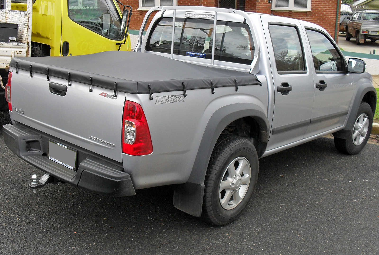 2008–2009 Isuzu D-Max LS-M 4-door utility, photographed in New South Wales Australia.